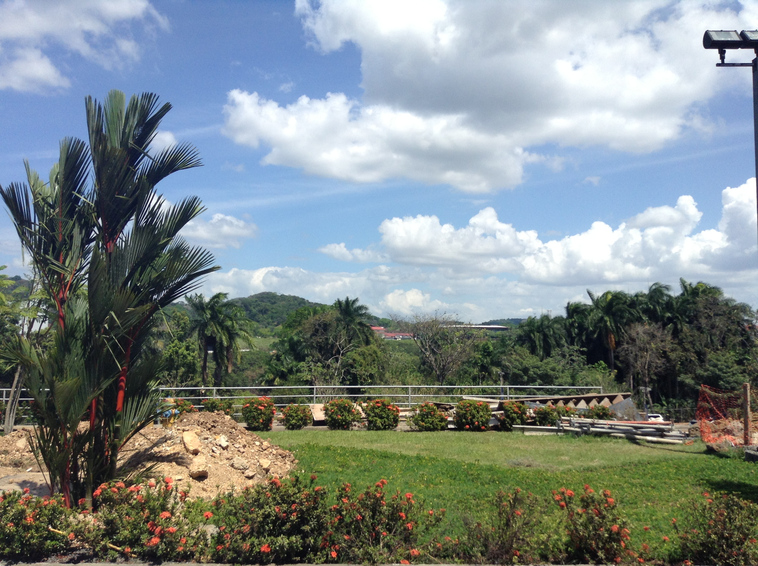 Looking east toward Camino de Cruces National Park from Ancon, Panama in 2013